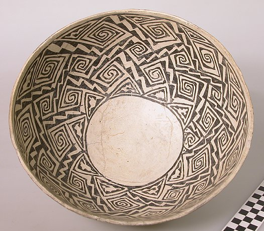 Flagstaff black on white bowl. Square spiral design on the inside, all white on outside. Early pueblo iii, 1100-1275 ad. Most abundant between 1100-1200 ad. Grand Canyon National Park Museum Collection, P.O. Box 129, Grand Canyon, AZ 86023